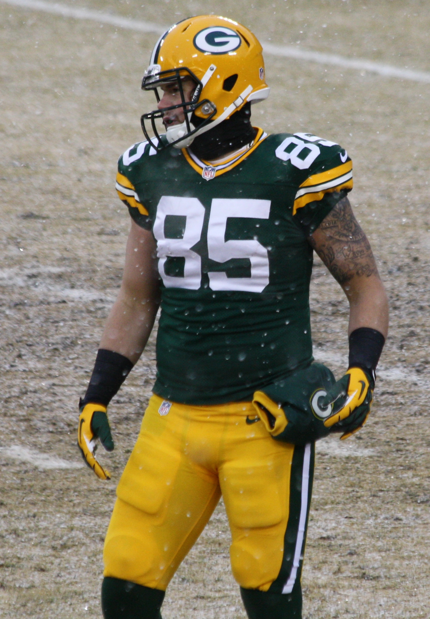 Green Bay Packers player Jake Stoneburner warming up against the Pittsburgh Steelers.